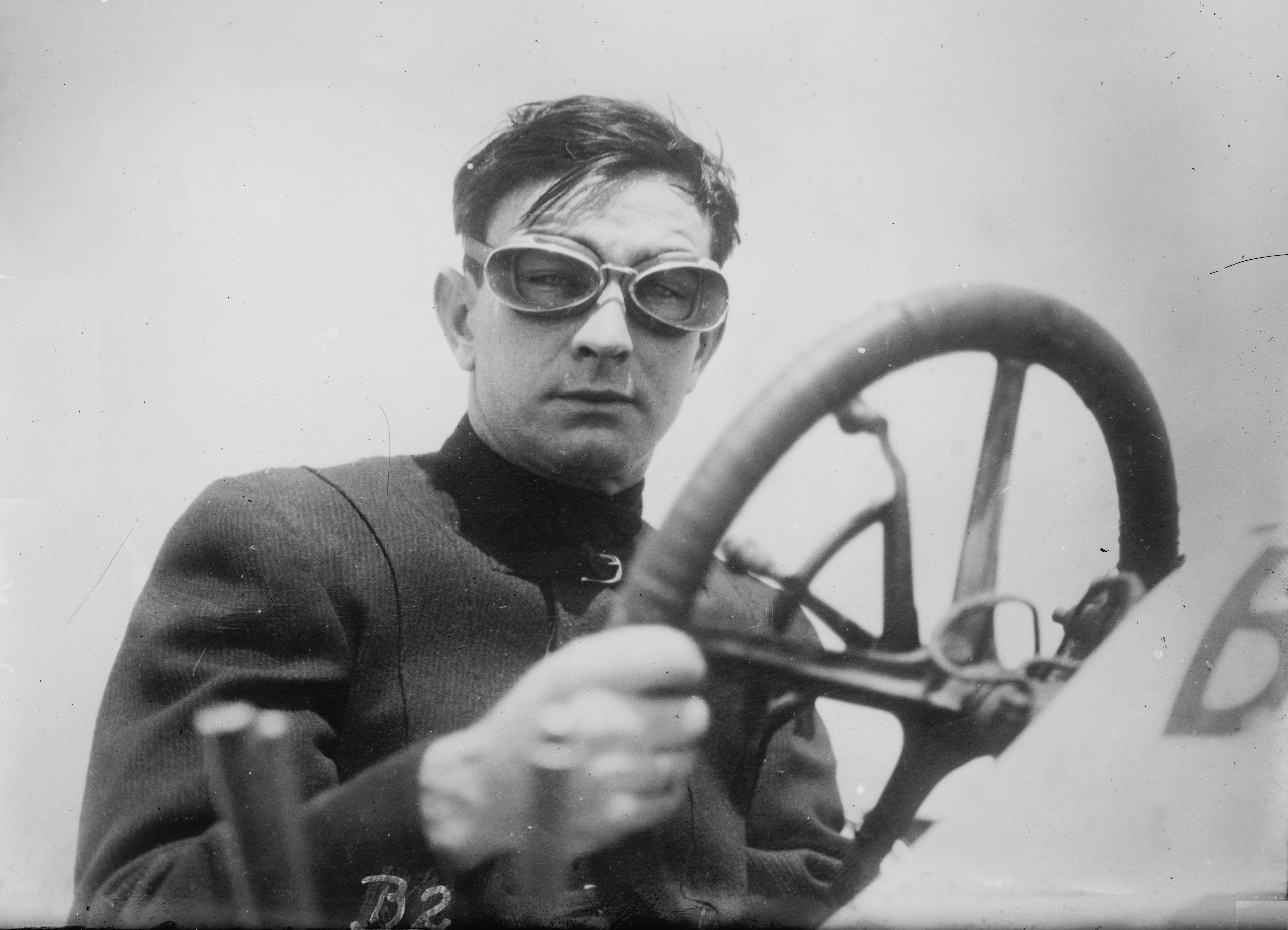 Photo of race car driver Bob Burman